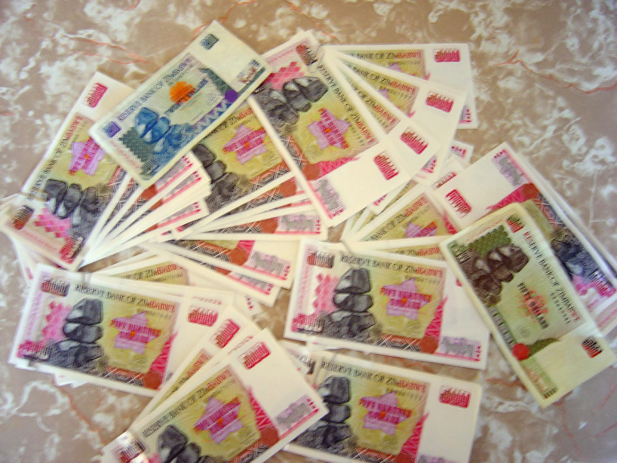 Zimbabwe £8 in local currency in 2003